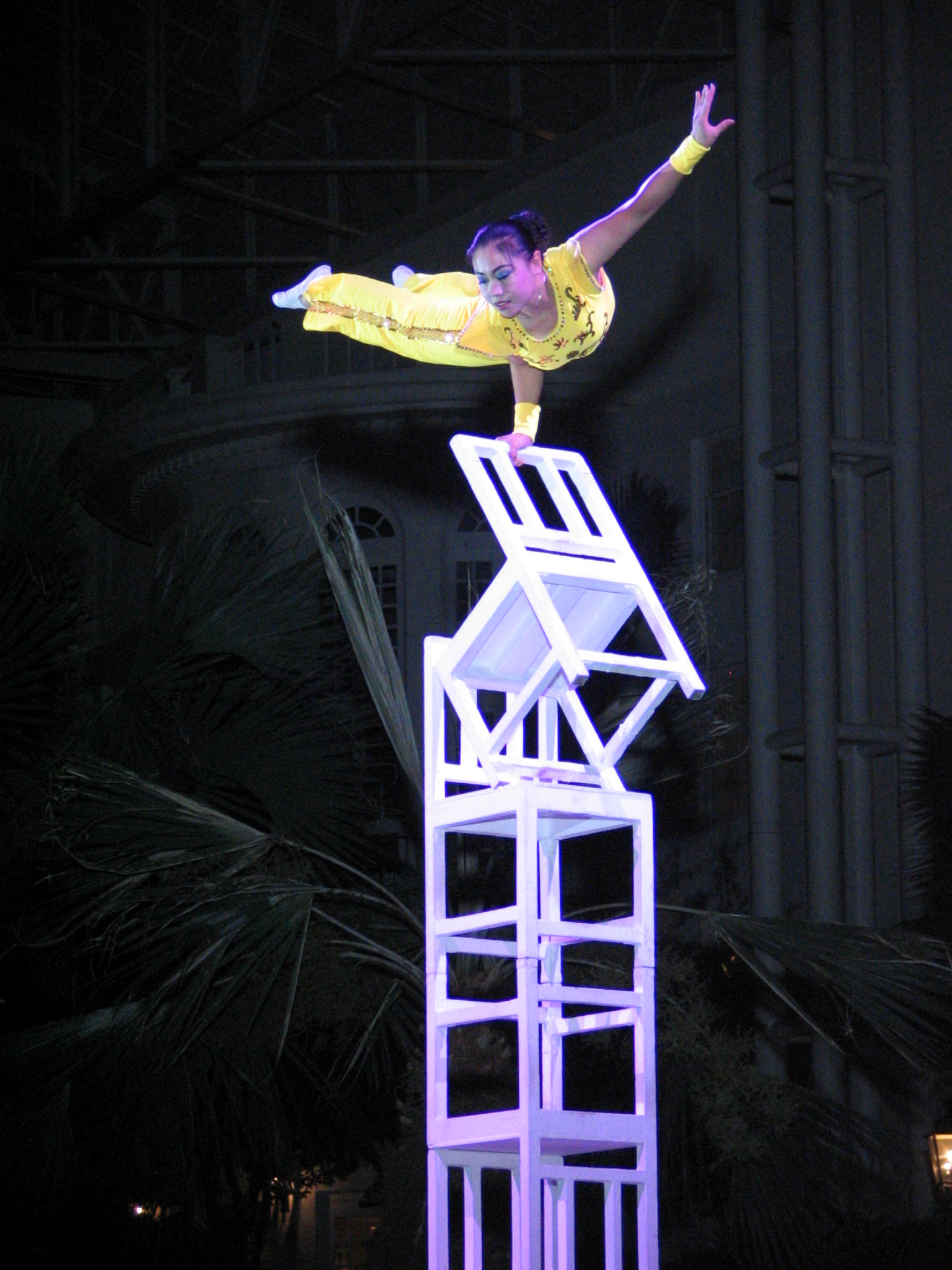 For those of you in the Nashville area that have the time, there is something that I recomend you see. The Peking Acrobats have a daily show in the Opryland Hotel Delta Conservatory at 8:30 pm which will run until early September. I am not easily impressed with "stunt show" types, but these performers were very good. It was well worth the walk and navigating the crowd. The show is free. Parking at the hotel is $10, but you can park for free at Opry Mills and walk, also. technical note: My flash isn't that good, I was sitting directly under a spotlight. Hello to anyone who found this photo from the RightMedia blog: or here: or here: or here: Your "Balanced" Mutual Fund May Be Off Balance or here: or here: or here: 5 Elements for a Well Balanced Lifestream or here: Is There A Better Word Than “Balance” In The Copyright Debate? or here: or here: Publishers Find a Tenuous Balance at Newspaper Death Watch or here: or here: or here: or here: or here: Genova sul filo del rasoio or here: or here: or here: Thing 12 - Putting the social into social media or here: Contentedly Crunchy: I can (and do) have it all. or here: Working Low: Work/Life Balance is Making Me Unbalanced or here: Do Balance Transfers Always Make Sense? or here